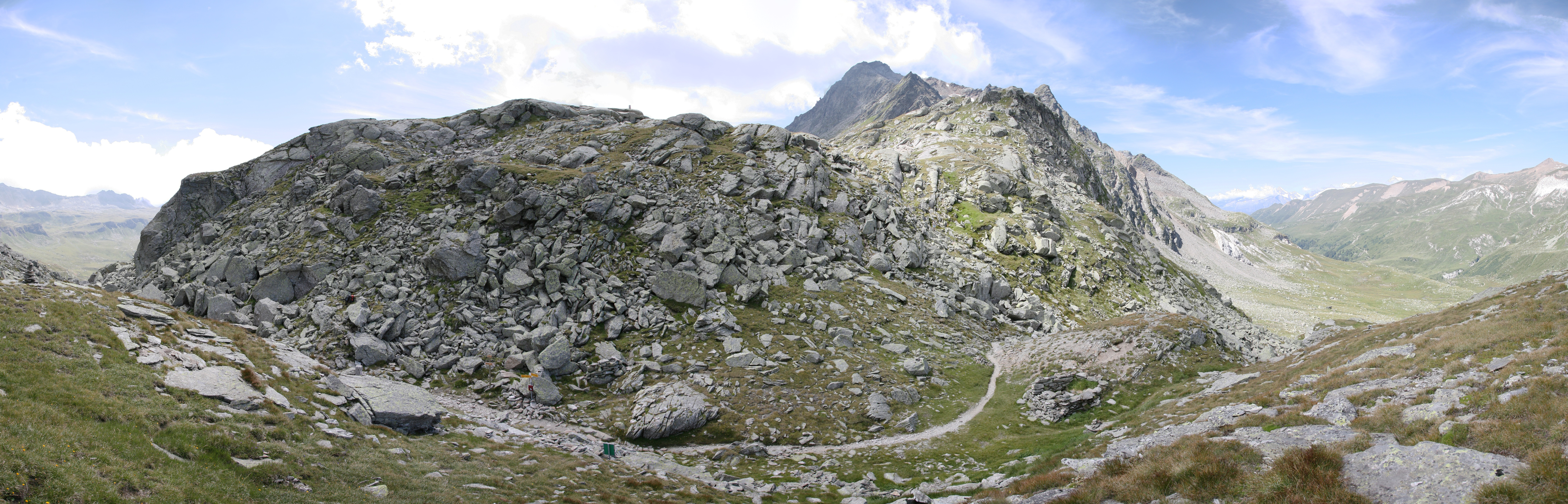 Albrun mountain pass, right: Binn valley in the swiss Valais, left: italian Piemont.